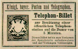 Royal Bavarian Mail and Telegraph phone card, issued in 1891. Reads: "Royal Bavarian Mail and Telegraph. / Phone Card / To be used in a public phone box for the duration of 5 minutes. / This card is to be kept until depature from the call booth and is to be presented on request."